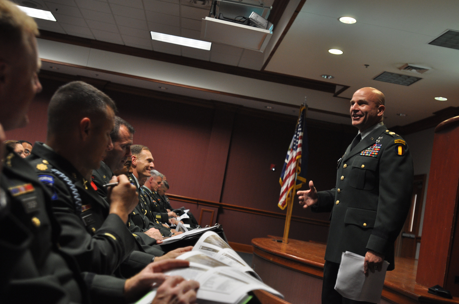 Brig. Gen. H.R. McMaster, Director of Concept Development and Experimentation at U.S. Army Training & Doctrine Command, speaks to senior officers and non-commissioned officers from the 2nd Brigade Combat Team, 82nd Airborne Division as the first guest lecturer in the 2nd BCT's Distinguished Lecturer Series, at the Hall of Heroes Sep. 18.